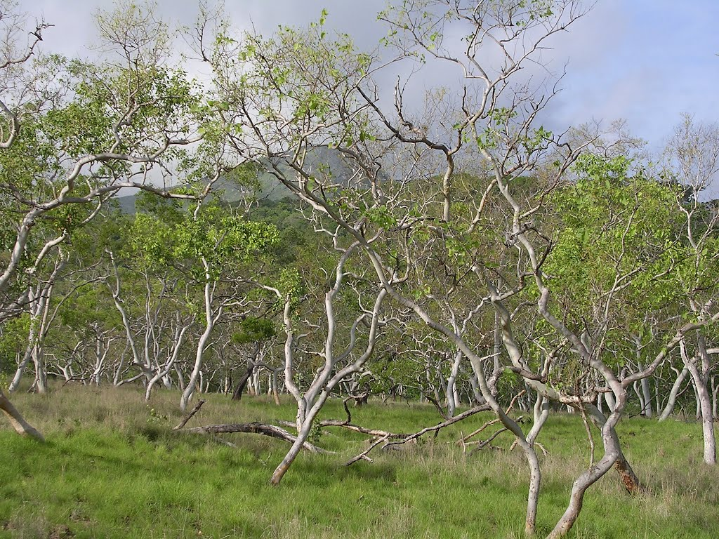 Eucalyptus alba woodland along Adara-Beloi track, Atauro